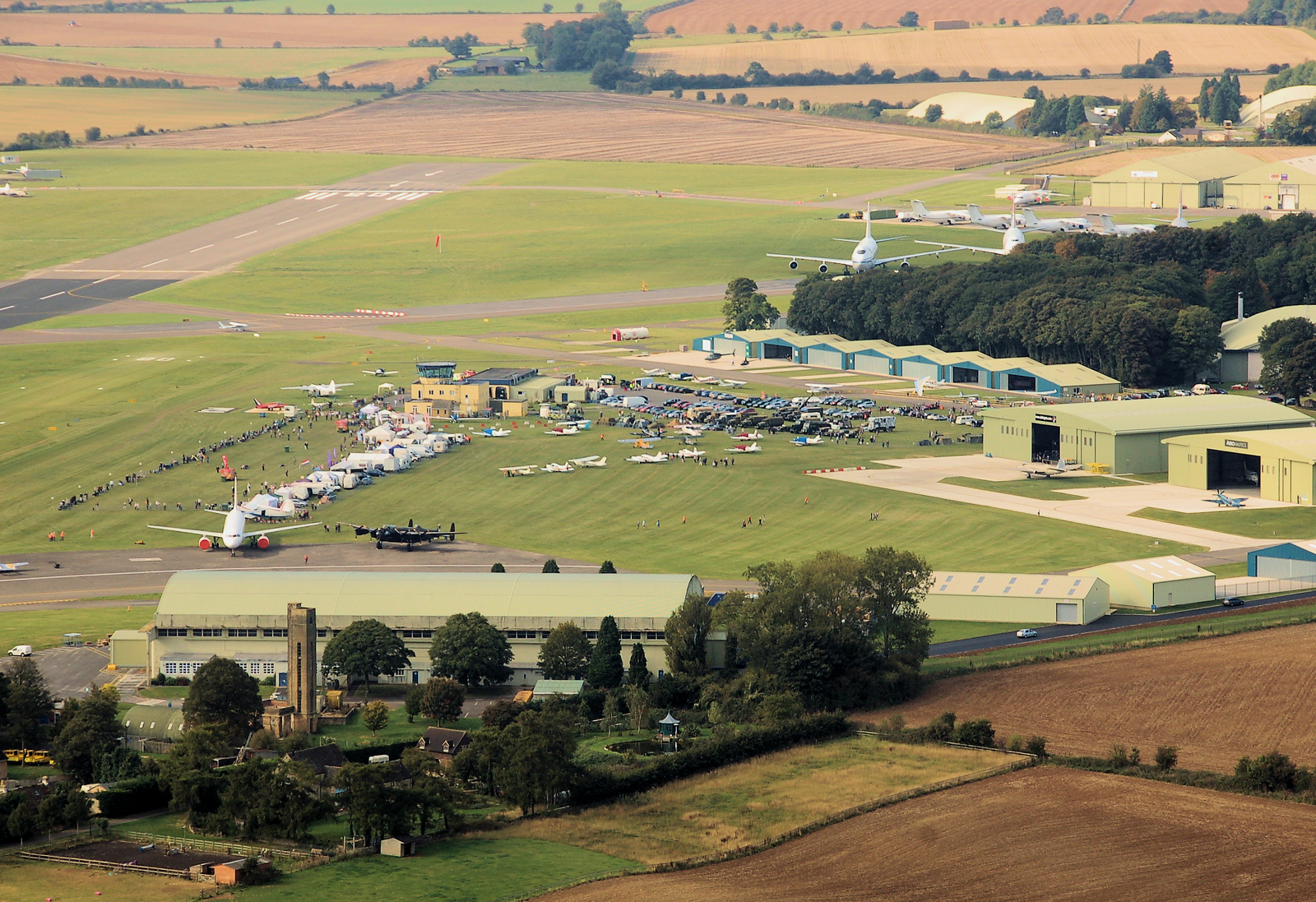 Part of Cotswold Airport, Kemble, Gloucestershire, England (previously known as Kemble Airport) from a Robinson R44 helicopter pleasure flight. Looking west, at the Battle of Britain Weekend 2009. Most of the picture is the Battle of Britain Weekend area, with the control tower amongst it. The dark aircraft, roughly left of centre, is Lancaster PA474 of the Battle of Britain Memorial Flight (it displayed later that day). Outside the two large open hangars on the right are a preserved Canberra and the Rolls Royce Spitfire PS853. Aircraft in the distance are for storage, scrapping or resale. The small red aircraft left of the control tower is a non-flying ex-Red Arrows Folland Gnat. Photographed by Adrian Pingstone in September 2009 and released to the public domain.